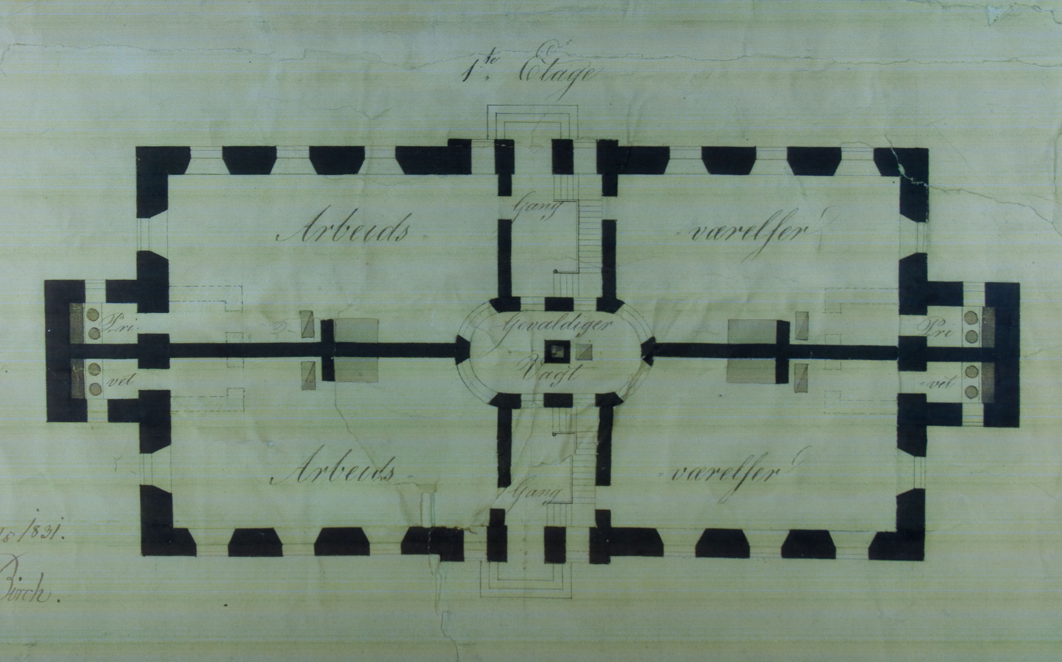 Arkitekttegnet tegning av Ole Petter Riis Høegh. Framstilling av førsteetasjen i det nye slaveriet på Kalvskinnet.